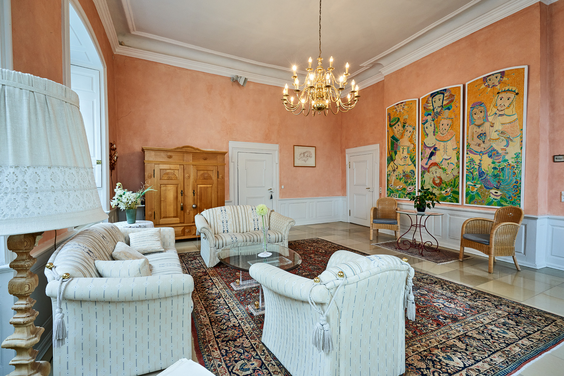 The Peer-Gynt Room with Paintings of Udo Wollmeiner